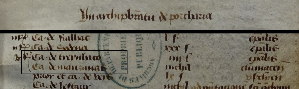 Extrait du Pouillé de 1315. Ancien diocèse de Limoges (Source : Archi.dept.23)